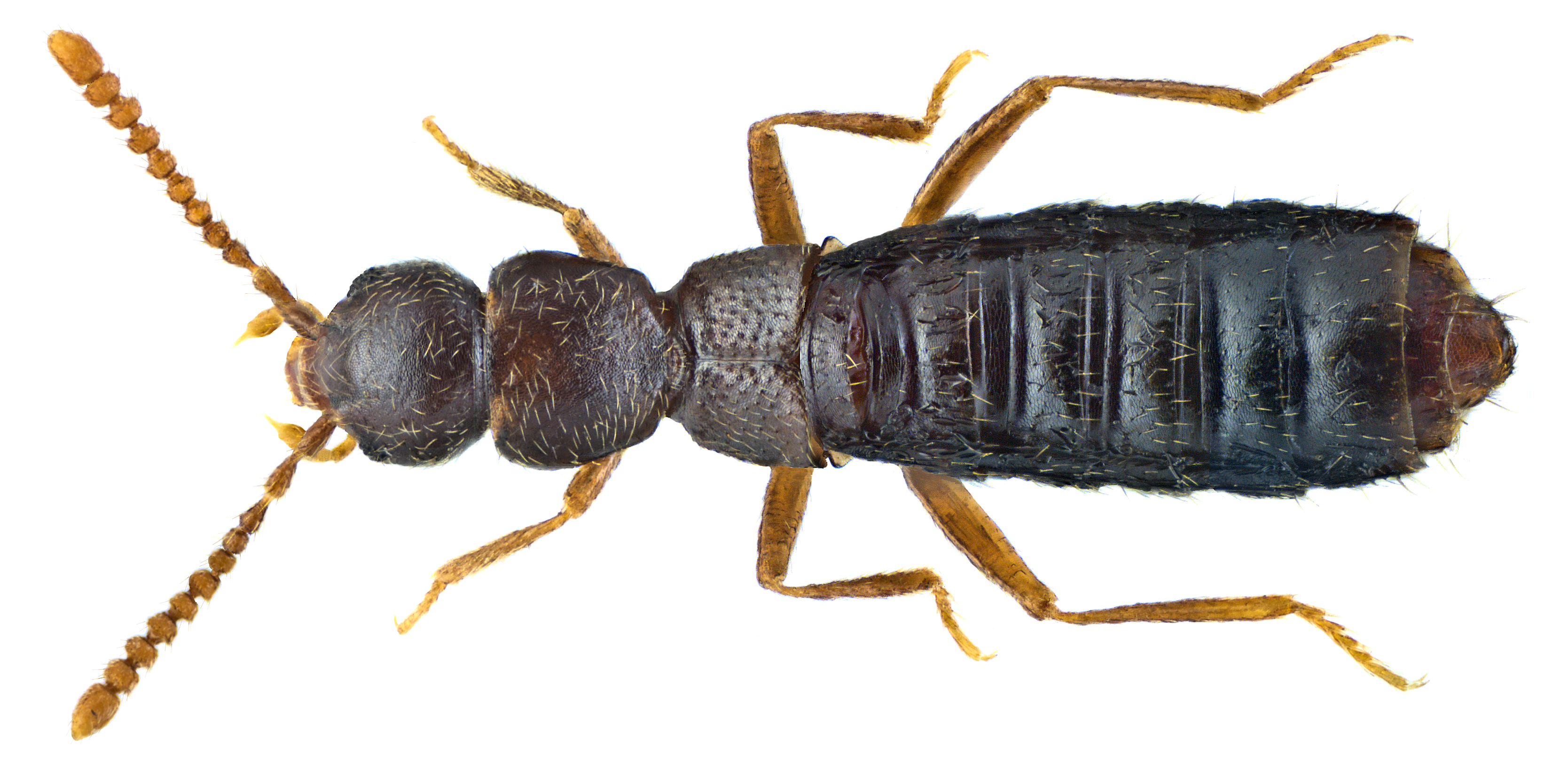 Family: Staphylinidae Size: 2,2 mm (2.0 to 2.2 mm) Origin: Germany, endemic species of the highlands Ecology: lives in wet sludge Location: Germany, Thuringia, Graefenroda, Sieglitz valley leg.det. W.Apfel, 17.V.1997 Photo: U.Schmidt, 2015